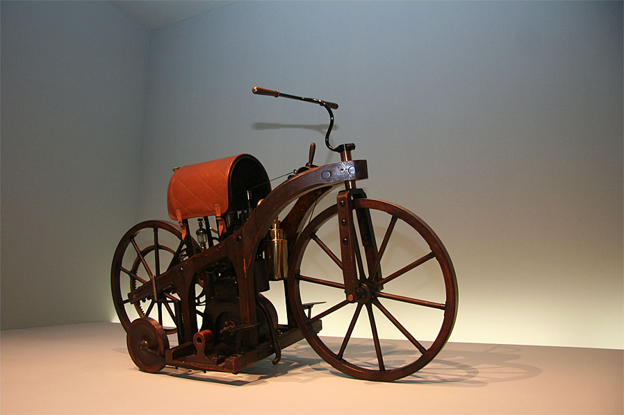 The very first motorcycle ever - named "Reitwagen" ("riding car") - was built by Gottlieb Daimler and Wilhelm Maybach. It was powered by a four-stroke one-cylinder engine with a displacement of 264ccm (58x100mm) and 0.5hp power output at 700rpm, with a top speed of 12km/h.